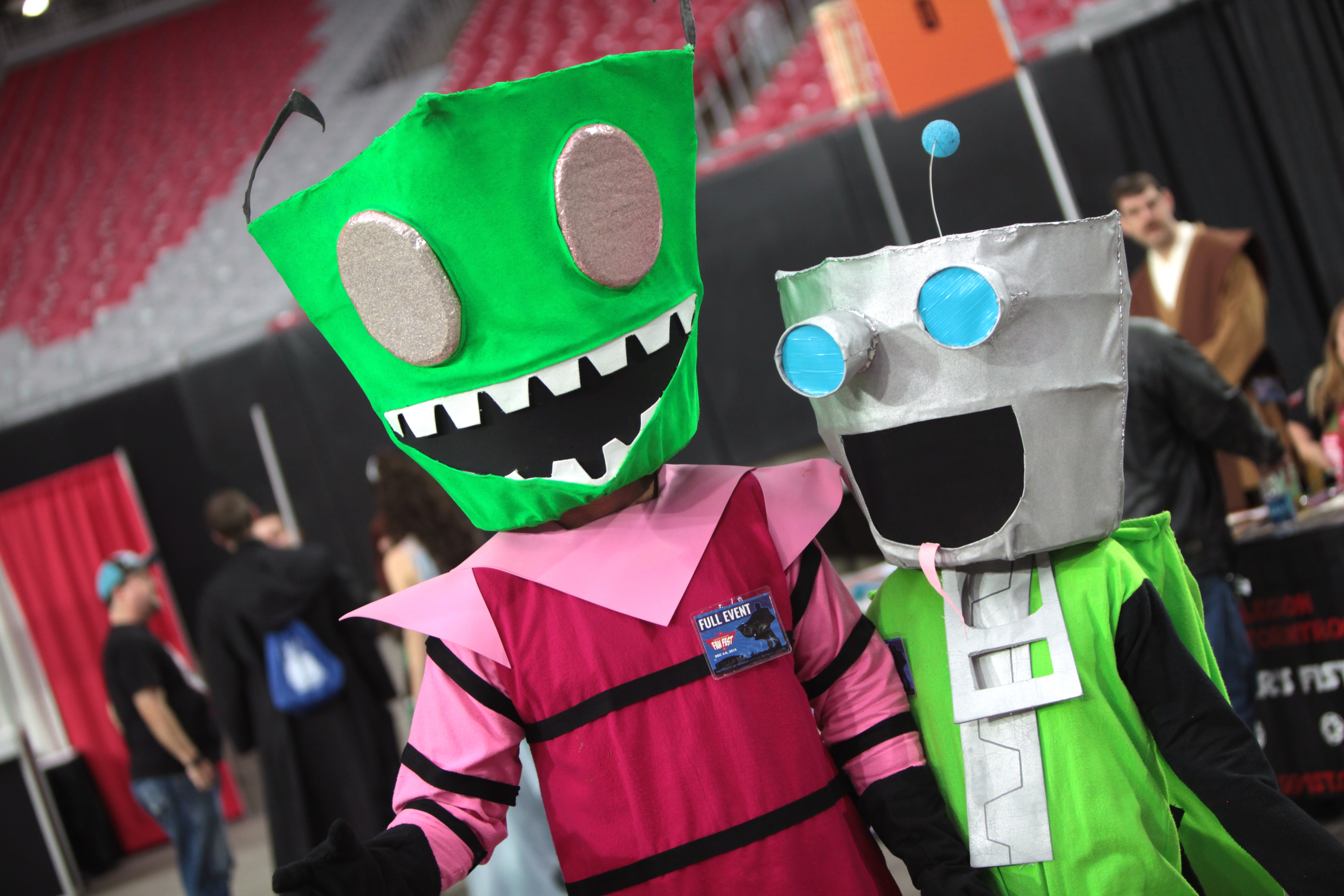 Zim and Gir of Invader Zim cosplayers at the 2015 Phoenix Comicon Fan Fest at the University of Phoenix Stadium in Glendale, Arizona.